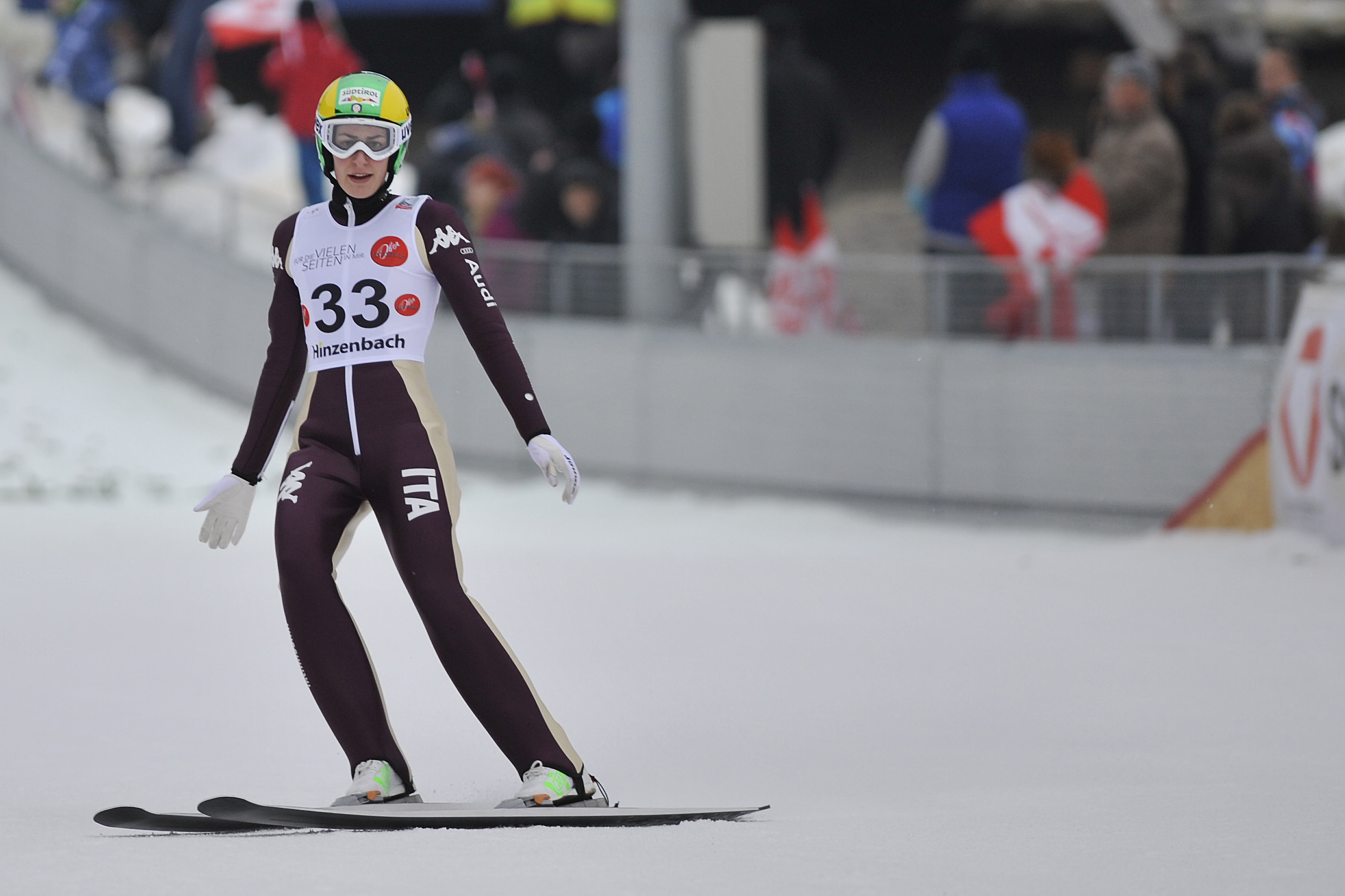 FIS Ski Jumping World Cup Ladies 14th World Cup Competition Normal Hill Individual Hinzenbach (AUT) Sun 2 Feb 2014: Evelyn Insam